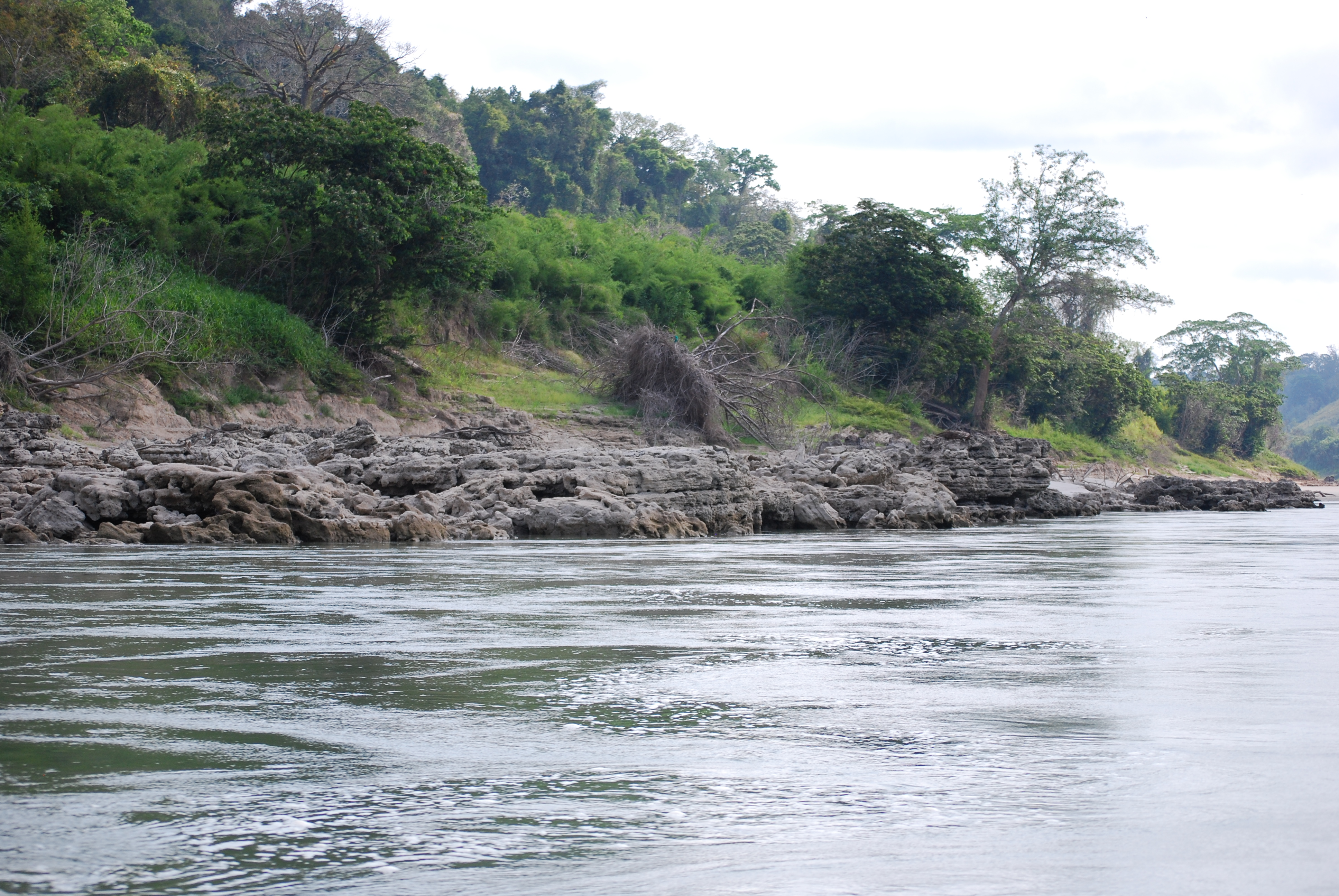 Usumacinta River bank Chiapas side near Yaxchilan